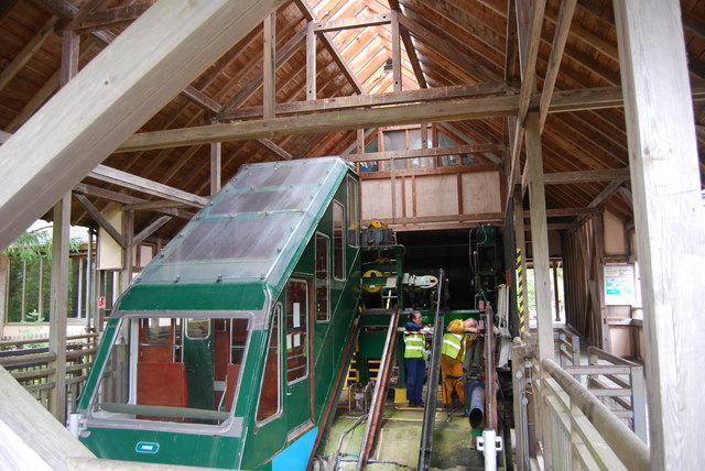 Funicular railway, CAT Working to repair it